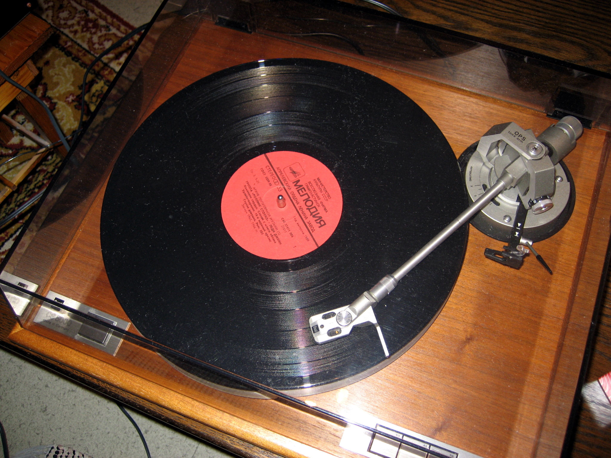 Dual's mid-range Hi-Fi turntable CS 5000, belt driven and quartz controlled with three speeds (33, 45, 78 rpm), made in Germany around 1987. The record on the plate is a USSR-made compilation of Rolling Stones classics.